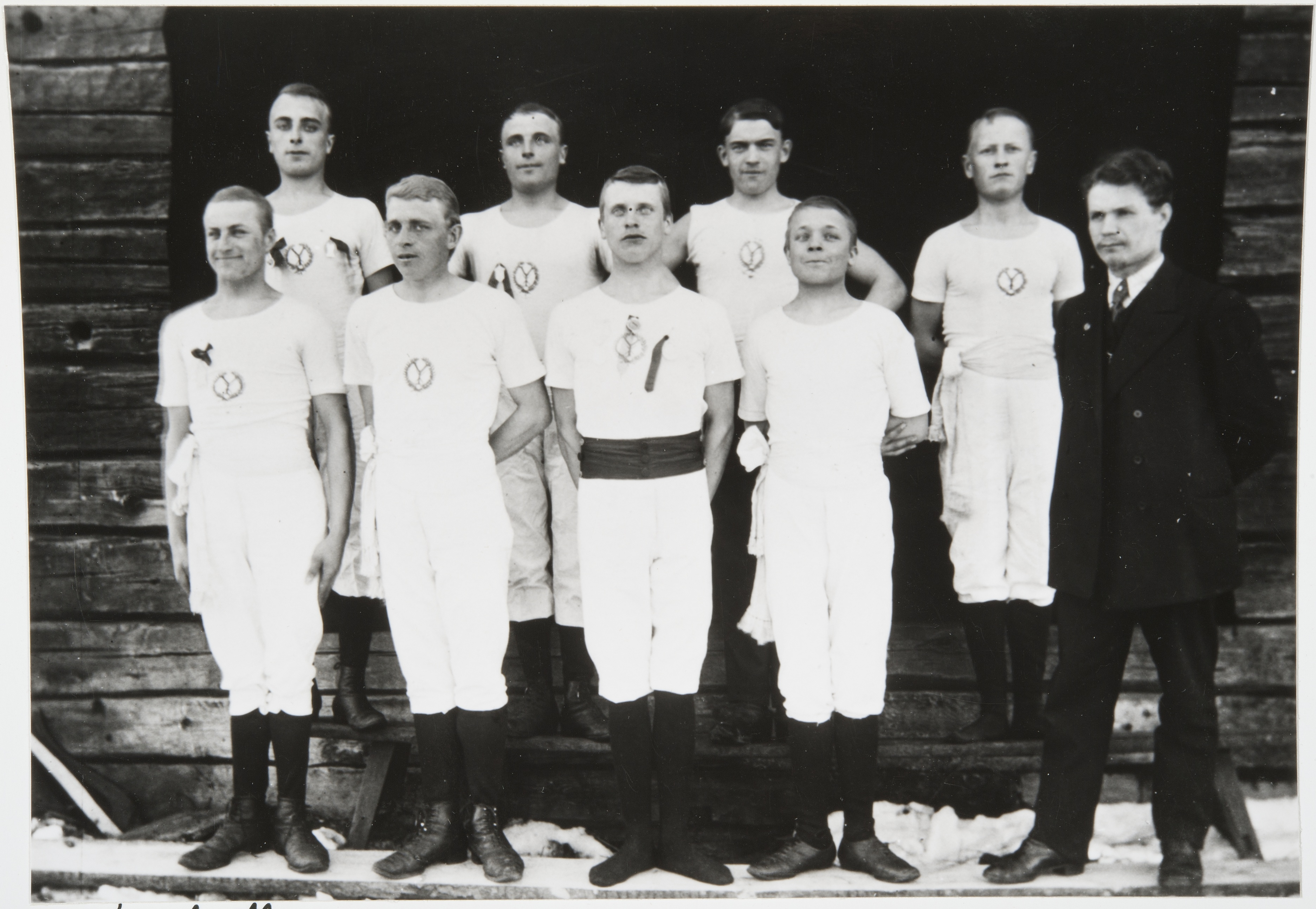 Vesa Gymnastics team in Haapajärvi, 1910s